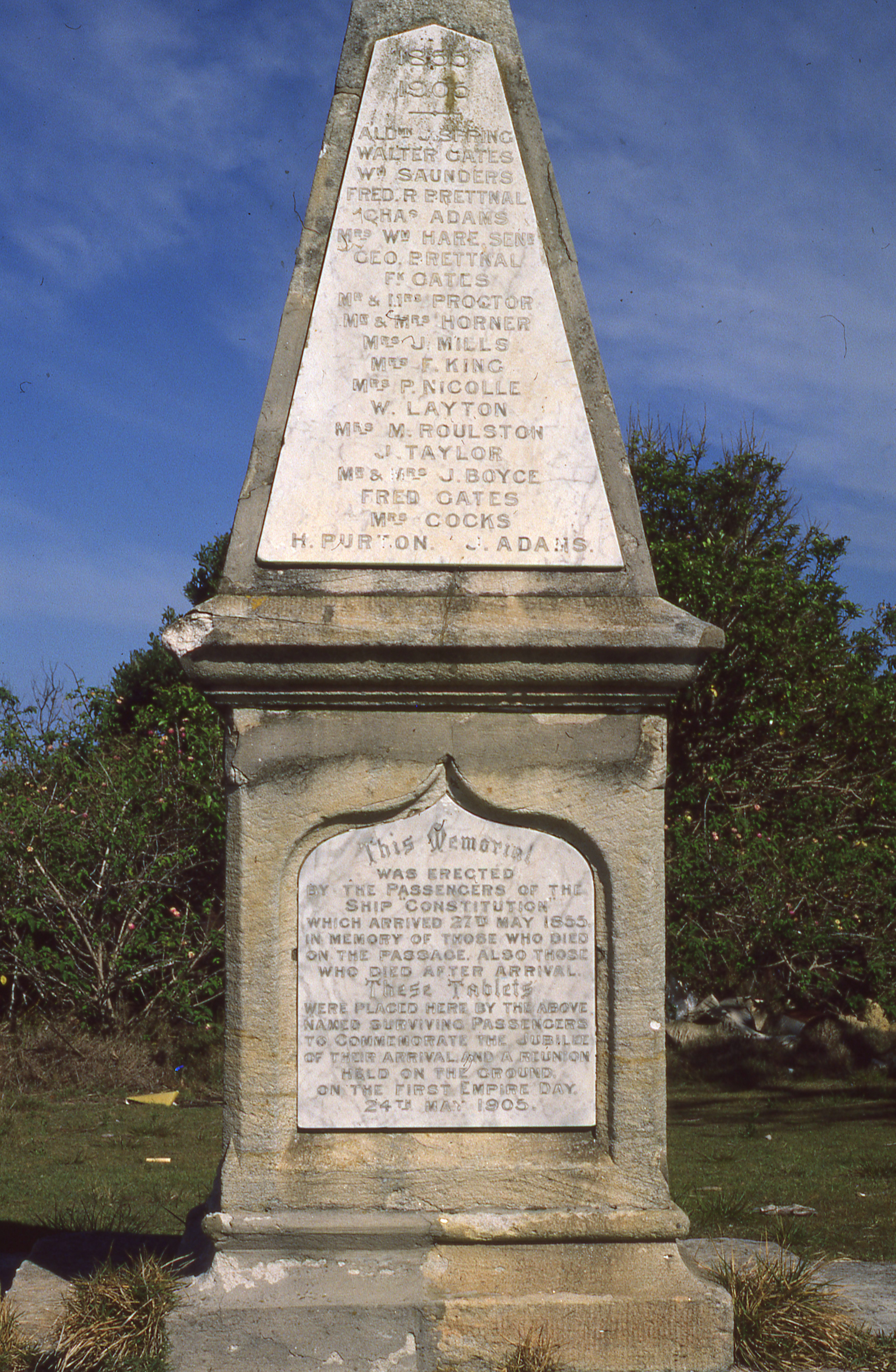 Quarantine Station, North Head, Sydney